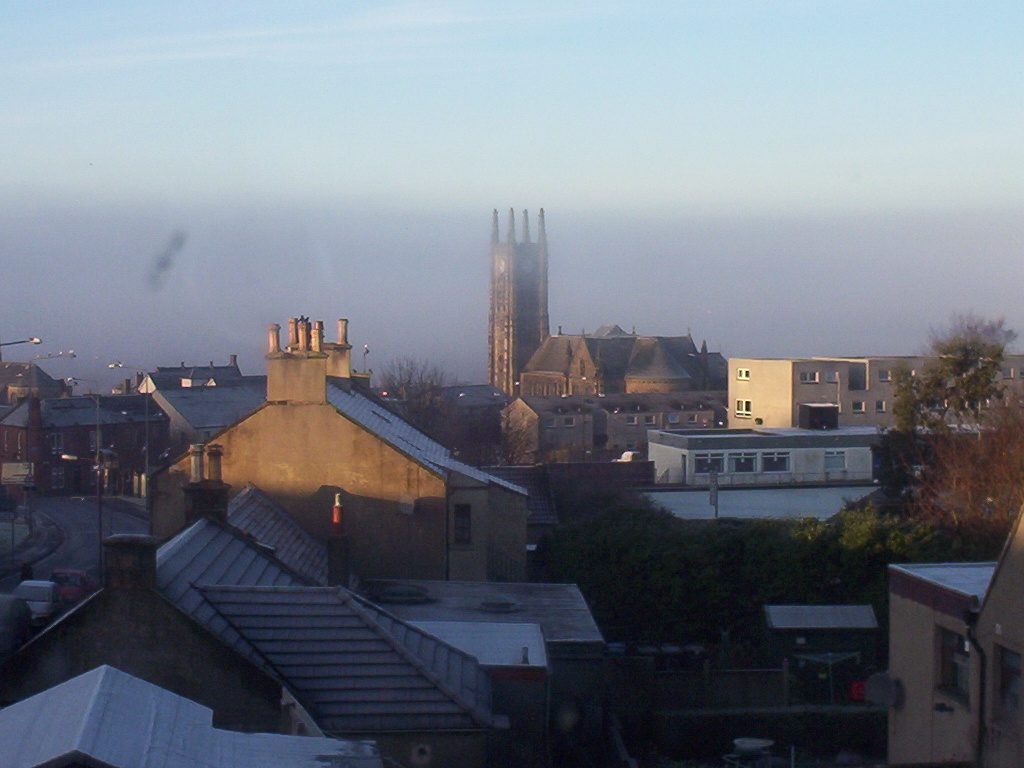 Bathgate, Scotland on Christmas 2005, with thick fog in the background.